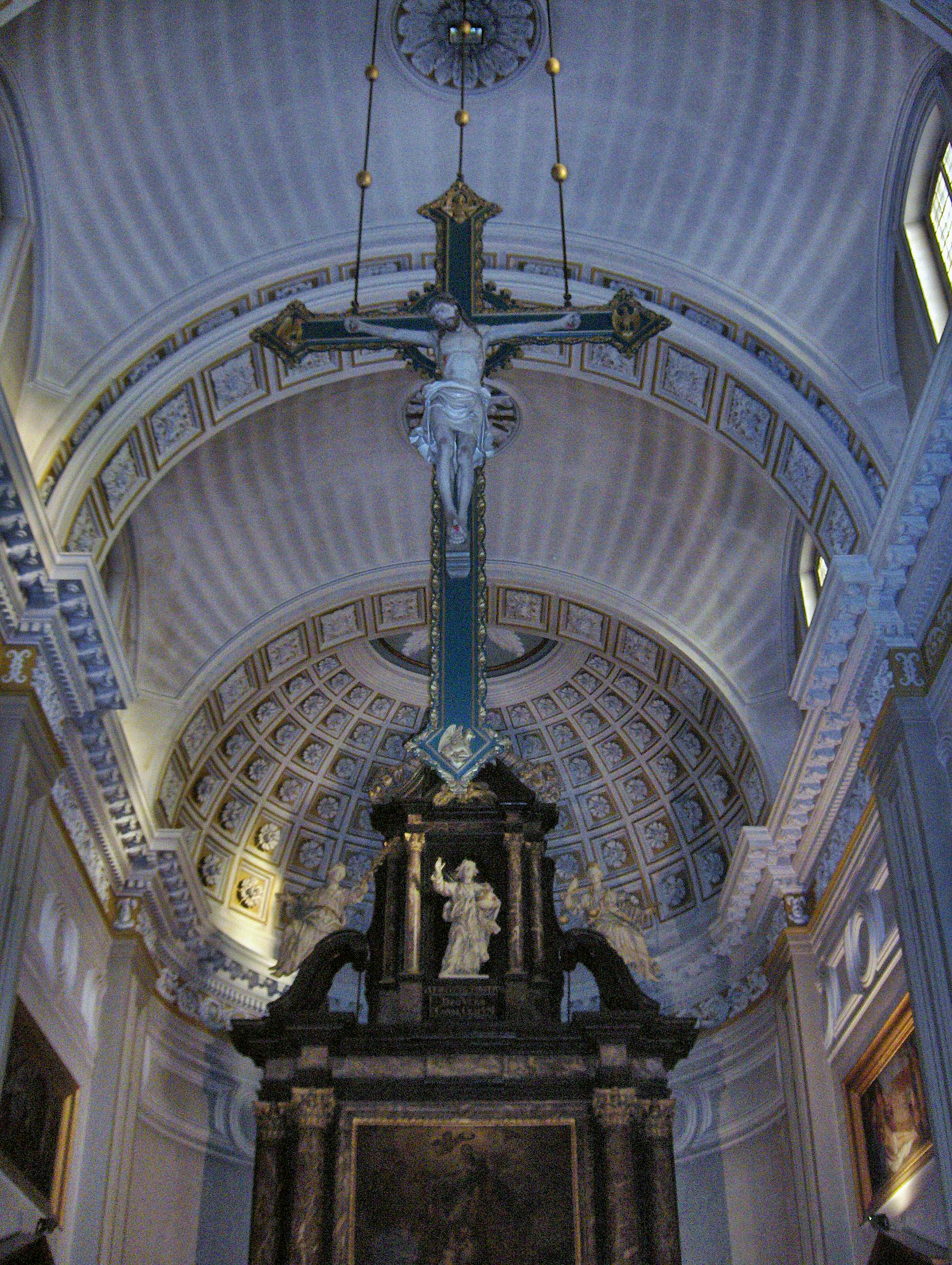 Church of St. Catherine : triumphal wooden cross (by Gussé, 1910) over the blind apse; Maaseik, Belgium